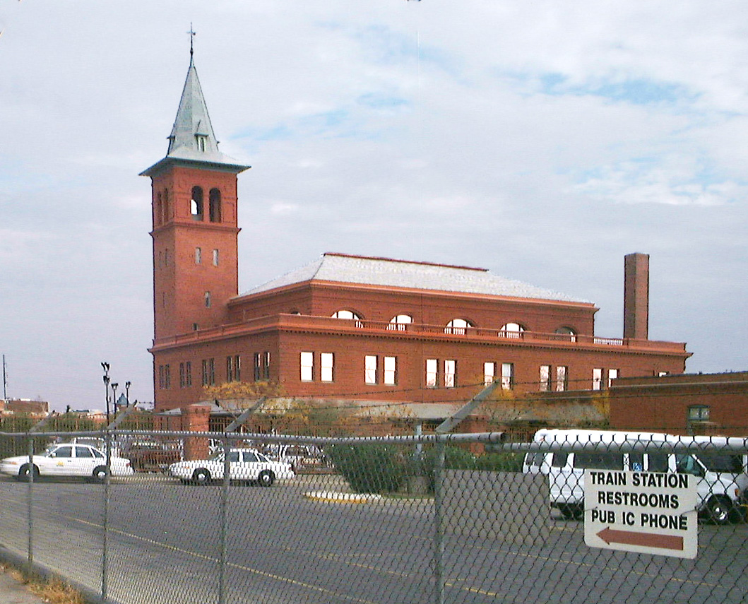 El Paso, Texas, depot with the westbound Amtrak Sunset Limited.